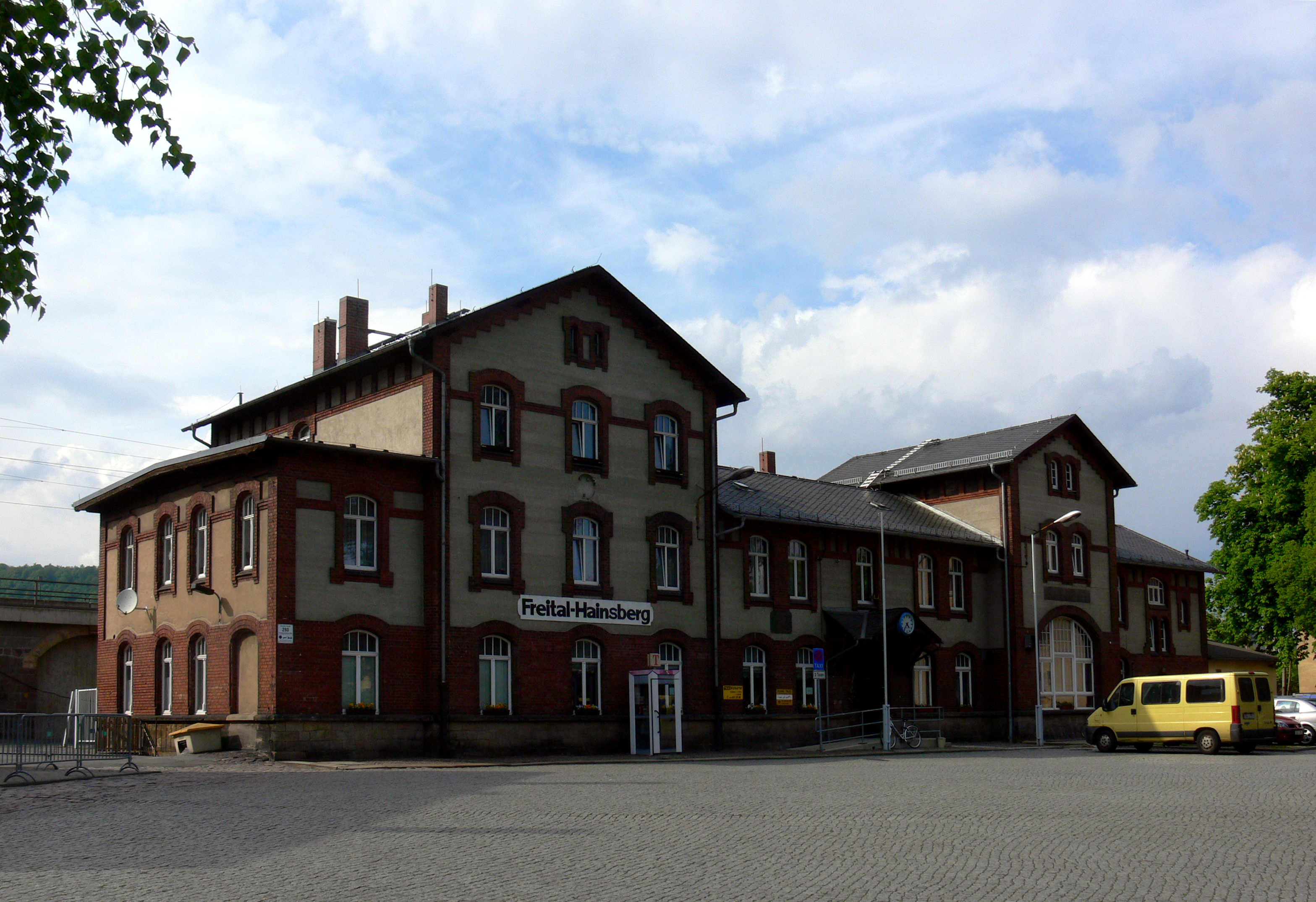 Freital-Hainsberg Station, since 1905